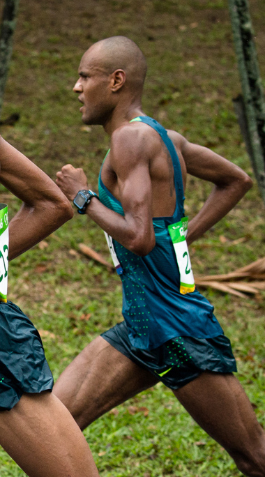 Men's marathon at the 2016 Summer Olympics